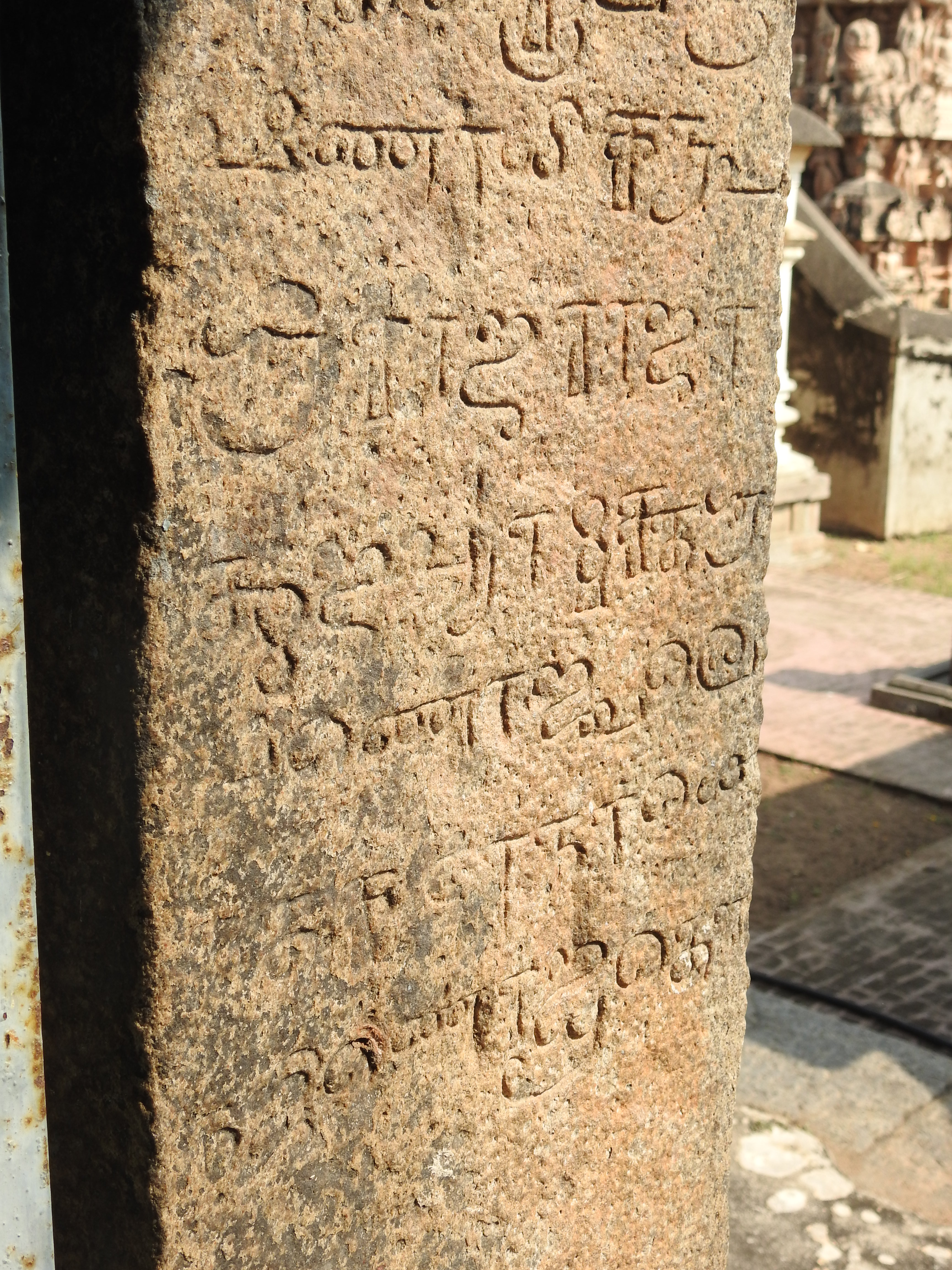 Tirumalai jaintempel inscription